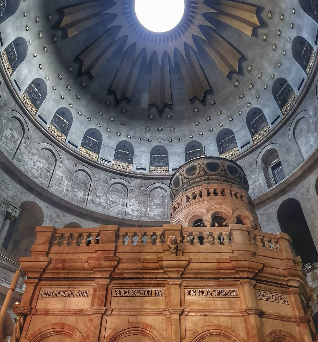 Church of the Holy Sepulchre (Jerusalem) - Interior : Aedicule & Roof of the Church of the Holy Sepulcher in Jerusalem